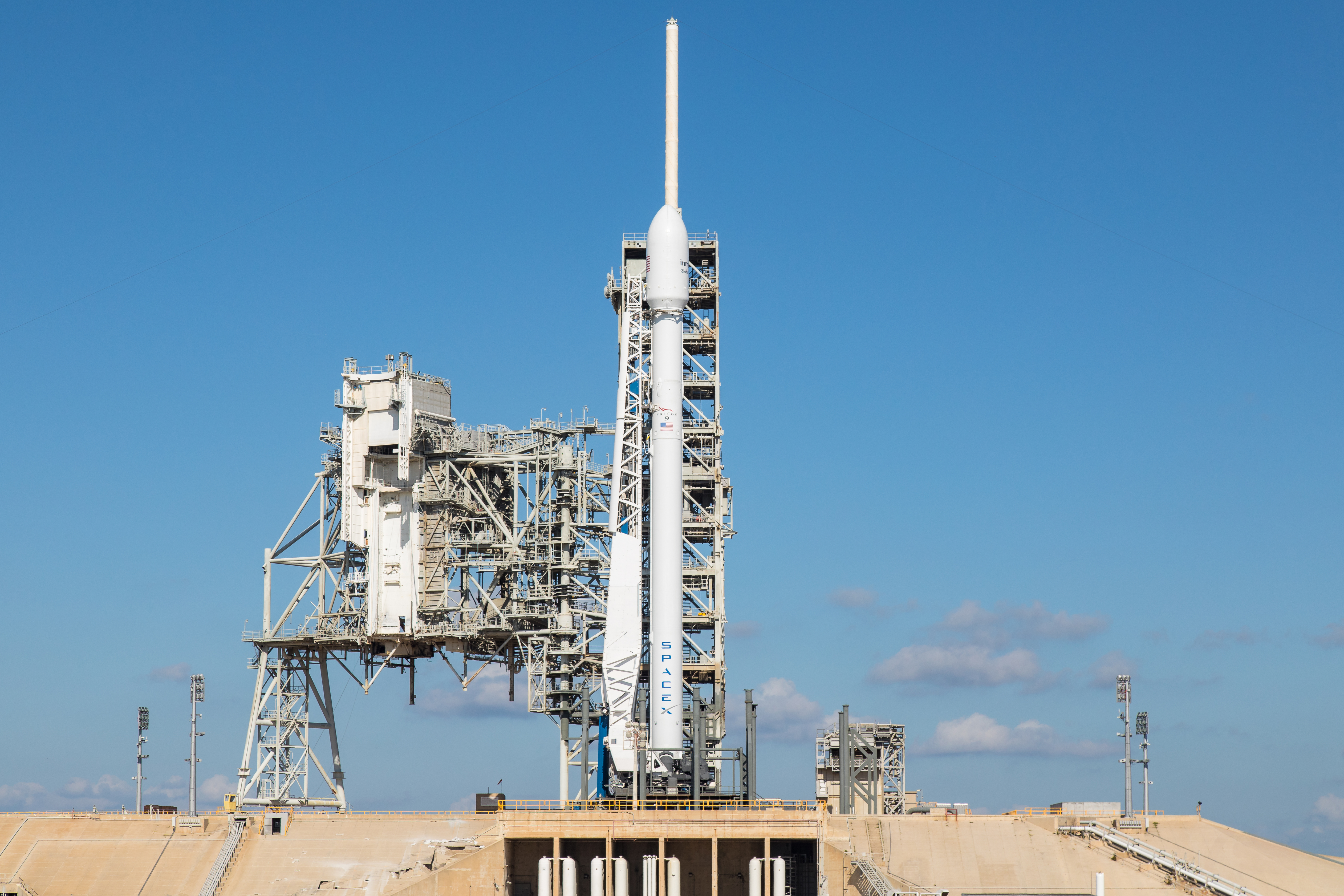 The #SpaceX #INMARSAT5 #Falcon9 on the pad, ready for launch. Window opens at 7:20pm (ET) tonight. (Photo by @Mike_Seeley / @WeReportSpace )